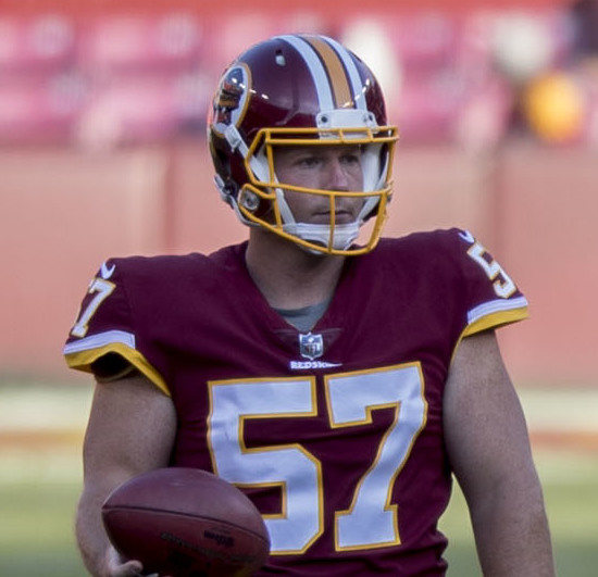 Washington Redskins long snapper, Nick Sundberg, in a preseason game against the Green Bay Packers on 8/19/17